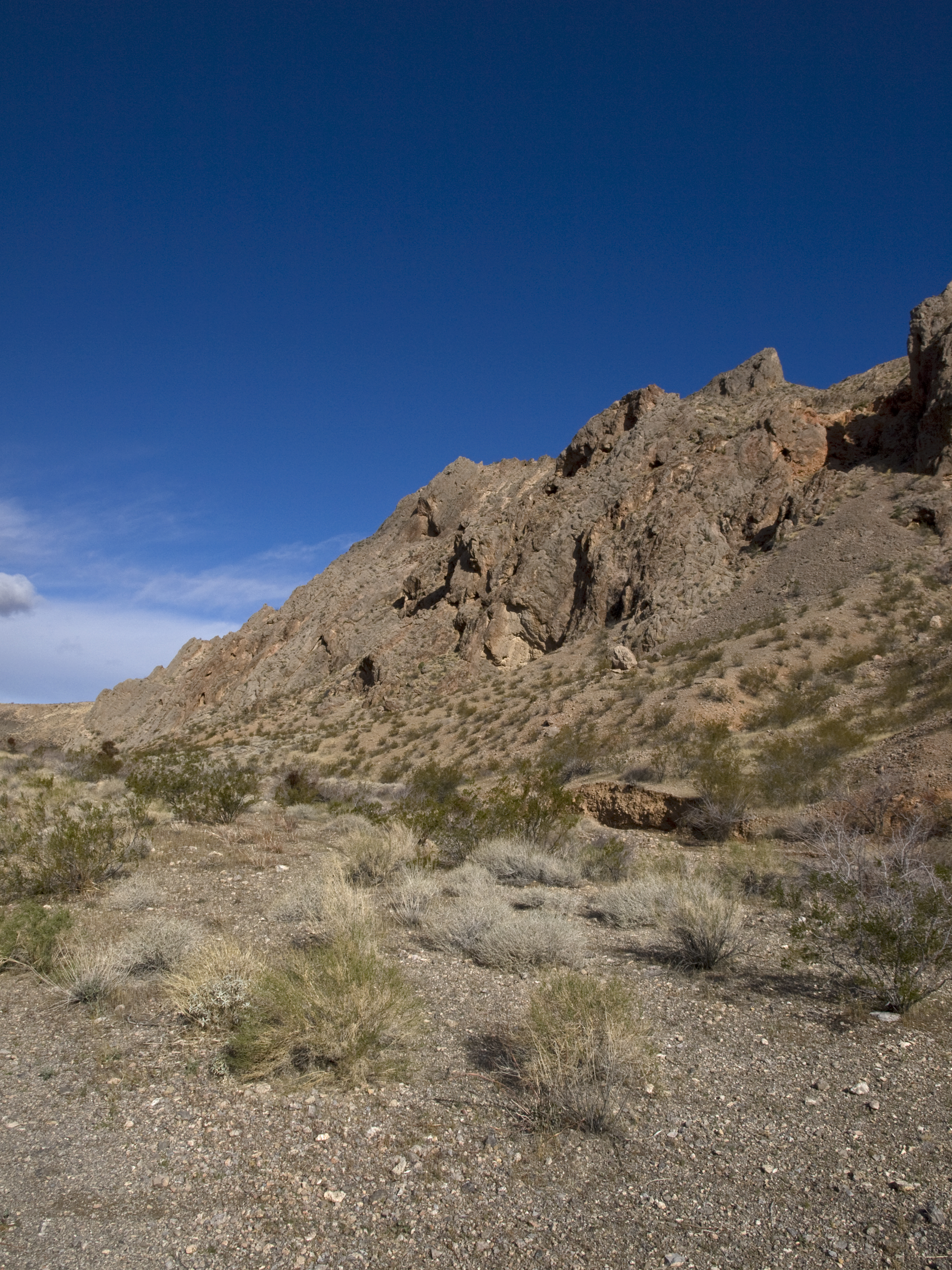 Rocks in Moapa River Indian Reservation, immediately west of the Valley of Fire State Park, taken from the Valley of Fire Highway